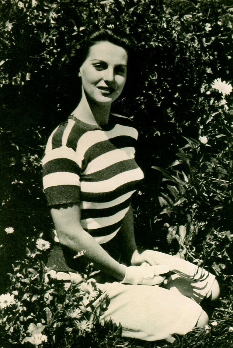 Isabel del Puerto, model for Salinas